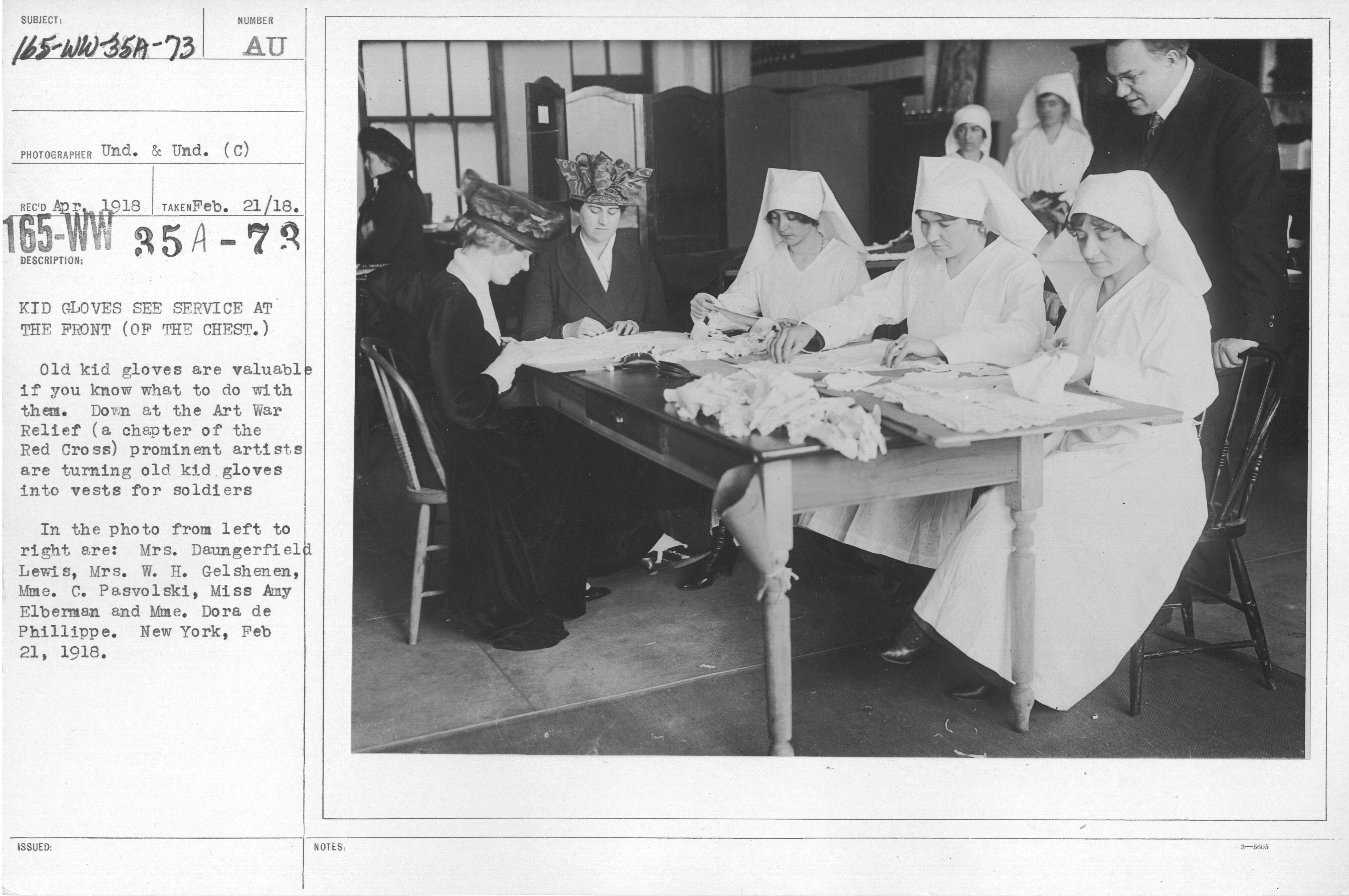 Scope and content: Date Taken: 2/21/1918 Photographer: Underwood & Underwood